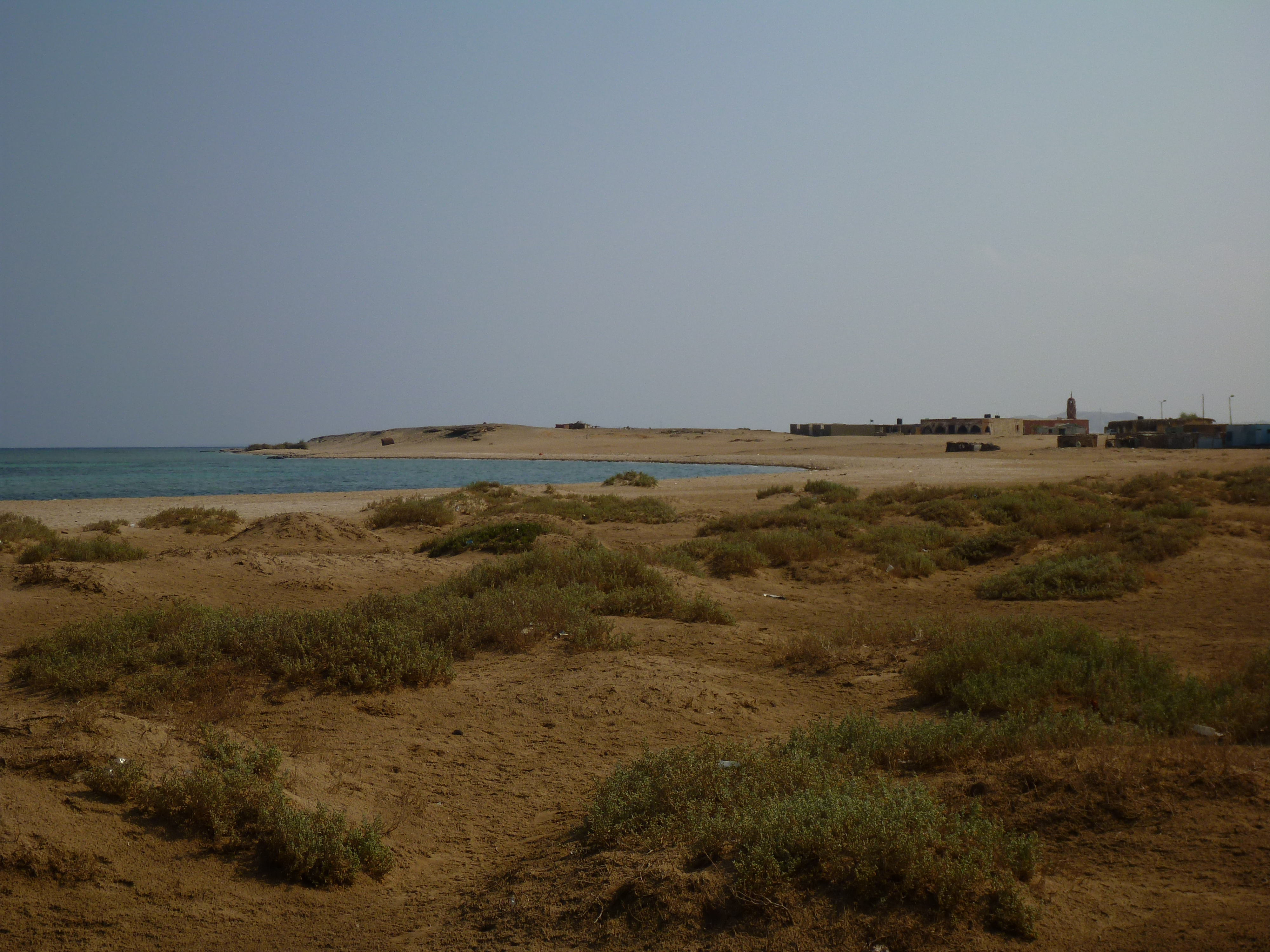 Wadi-al-Gamal national park at Red Sea shore